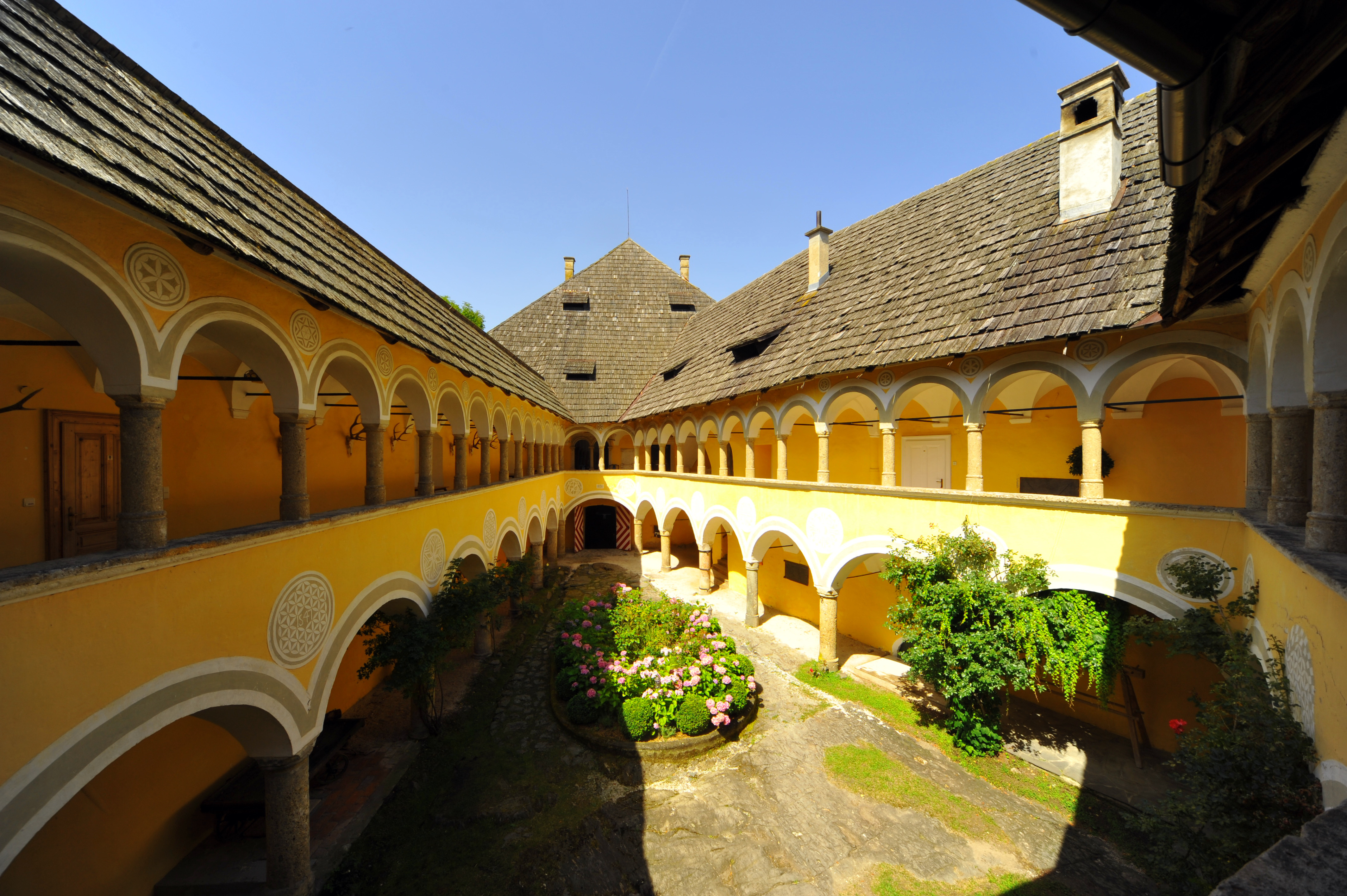 Upper arcade yard in the castle “Hallegg” in the 14th district “Wölfnitz” of the Carinthian capital Klagenfurt on the Lake Woerth, Carinthia / Austria / EU